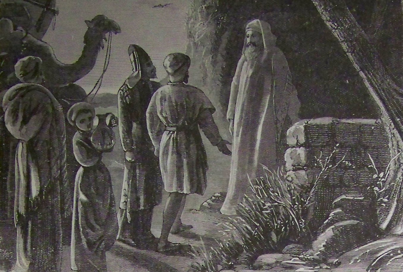 Balaam receiving Balak's messengers, as in Numbers 22:4 and after, illustration from the 1890 Holman Bible